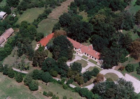 Várda, Hungary, aerialphotgraphy This is a photo of a monument in Hungary, Identifier: -7637